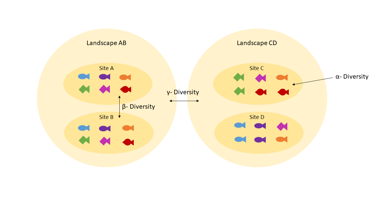 Difference between alpha, beta and gamma diversity